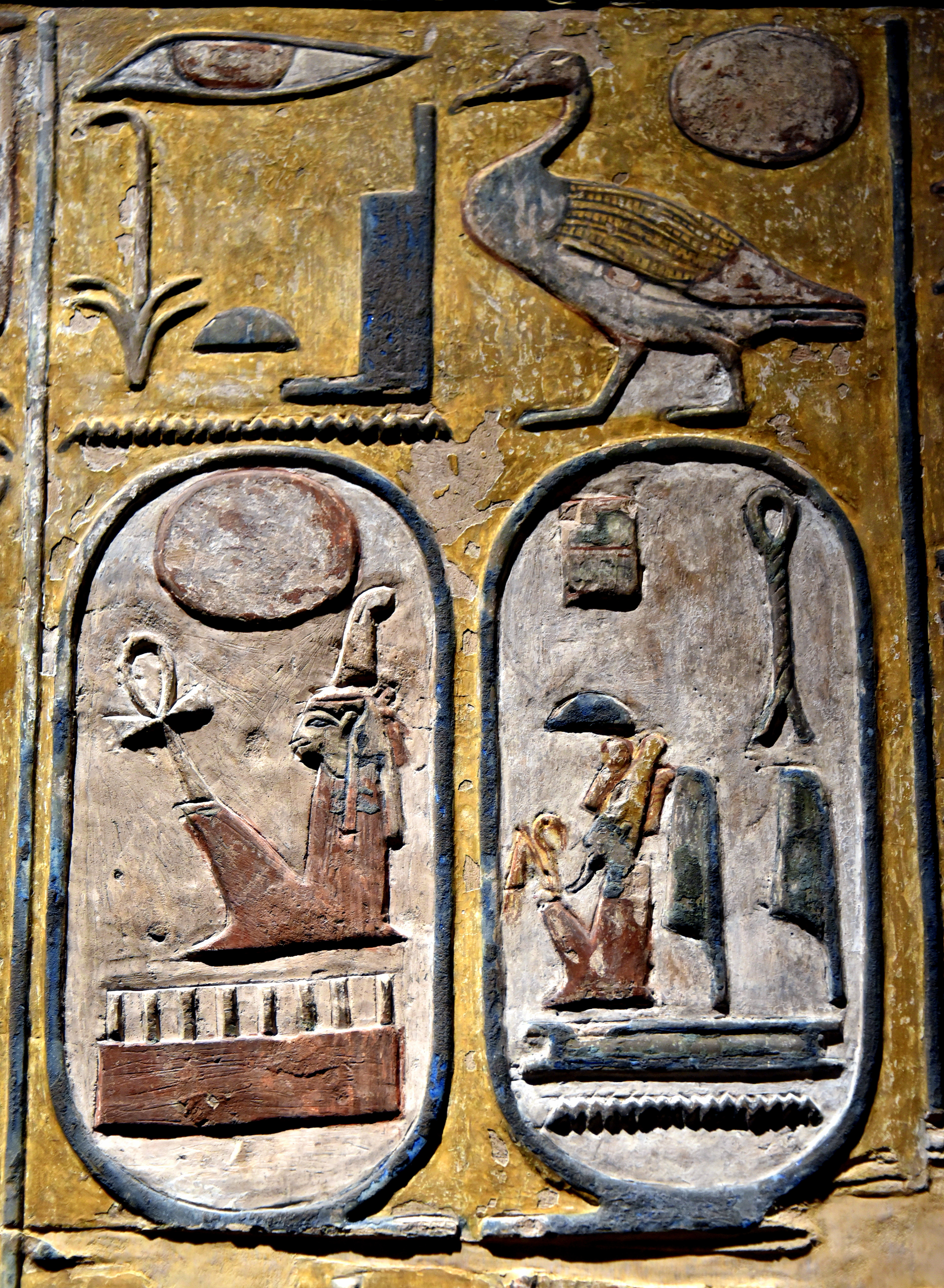 Birth and throne cartouches of Pharaoh Seti, wall painting of a pillar at the Tomb of Seti I (KV17; Hall J, Pillar B, side a), Valley of the Kings, Western Thebes, Egypt. New Kingdom, 19th Dynasty, 1290-1279 BCE. Neues Museum, Berlin, Germany. Plaster, painted. ÄM 2058.